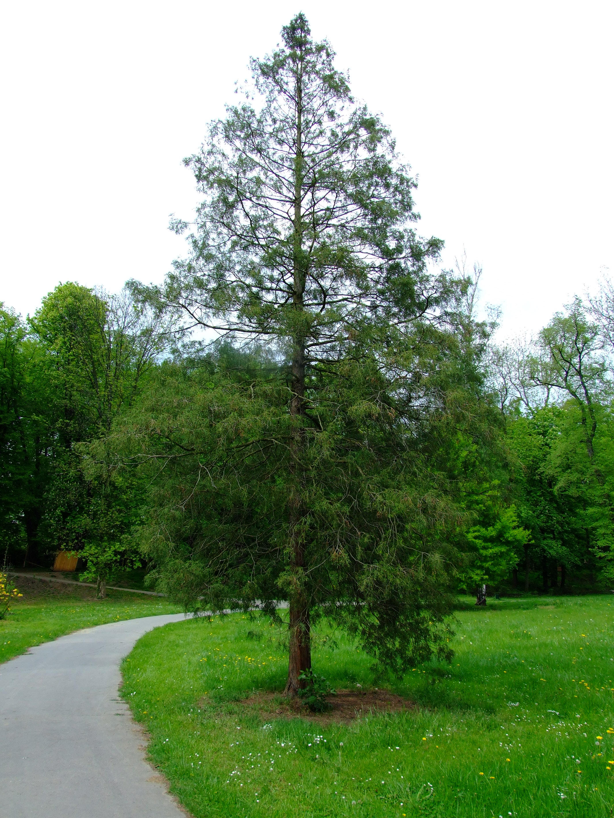 Chamaecyparis pisifera in Stromovka park, Prague, CZhelp